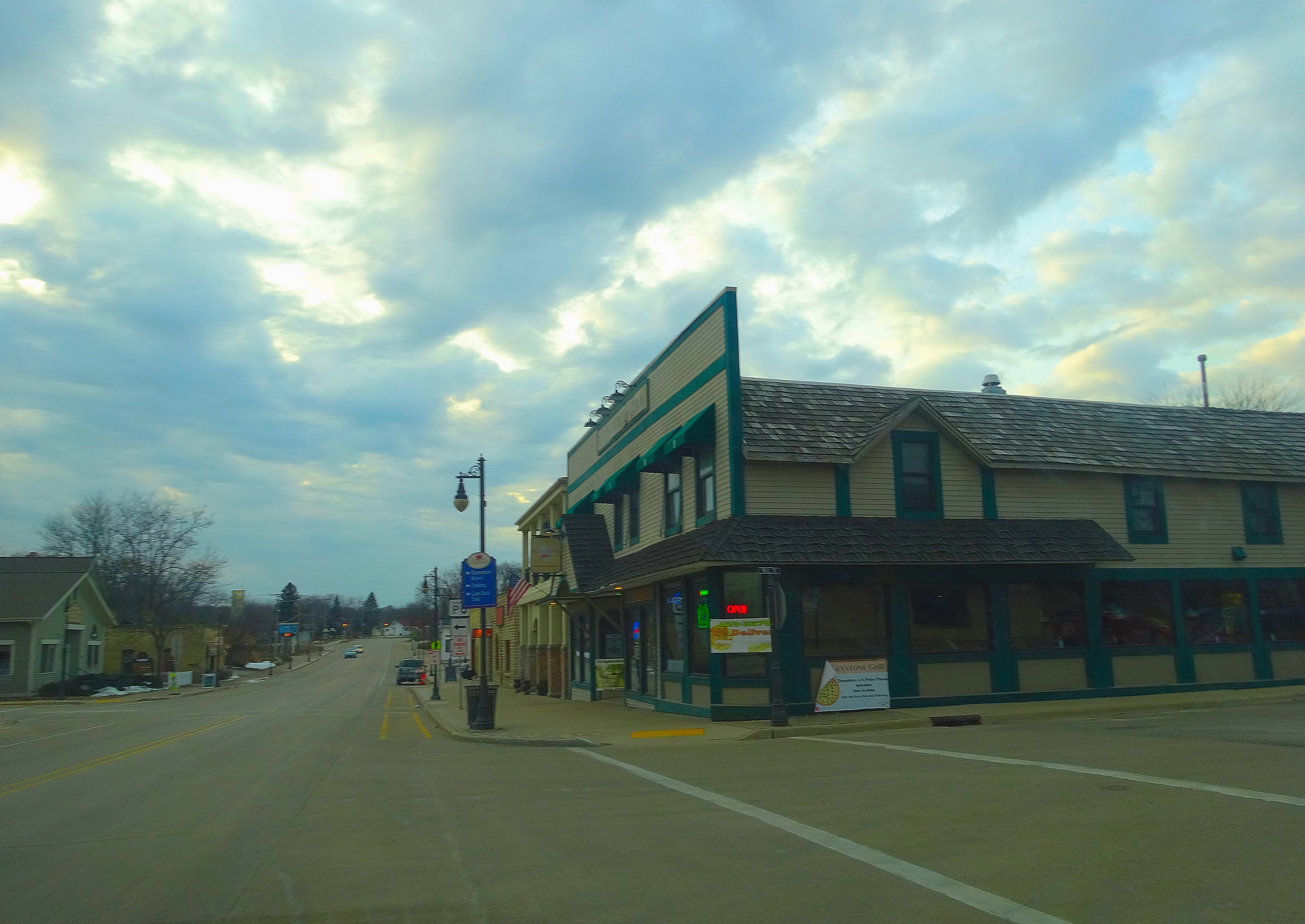 Downtown Cambridge